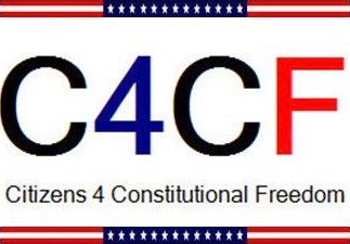 Logo of Citizens for Constitutional Freedom, affiliated in the January/February 2016 occupation of the Malheur National Wildlife Refuge. This logo image could be re-created using vector graphics as an SVG file. This has several advantages; see Commons:Media for cleanup for more information. If an SVG form of this image is available, please upload it and afterwards replace this template with vector version available|new image name . It is recommended to name the SVG file "Citizens for Constitutional Freedom logo.svg" - then the template Vector version available (or Vva) does not need the new image name parameter. This logo image was uploaded in the JPEG format even though it consists of non-photographic data. This information could be stored more efficiently or accurately in the PNG or SVG format. If possible, please upload a PNG or SVG version of this image without compression artifacts, derived from a non-JPEG source (or with existing artifacts removed). After doing so, please tag the JPEG version with Superseded|NewImage.ext and remove this tag. This tag should not be applied to photographs or scans. For more information, see BadJPEG .